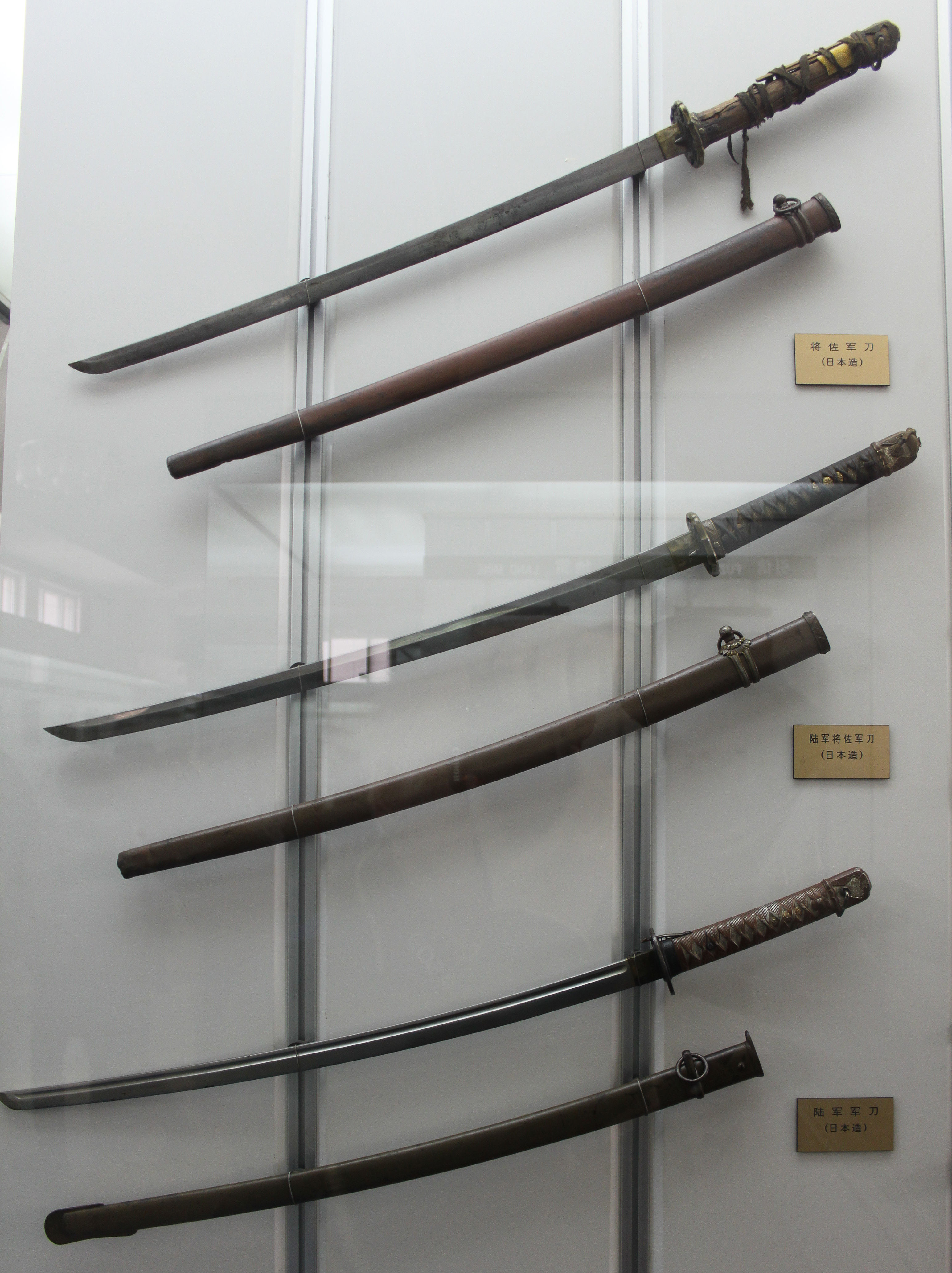 Military Museum: Modern Weapons, Small Arms Gallery. Complete indexed photo collection at .